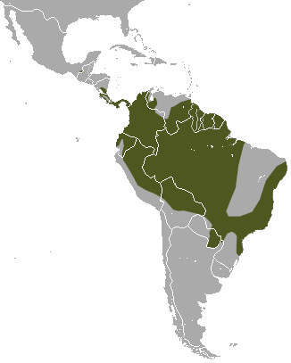 Brown Four-eyed Opossum (Metachirus nudicaudatus) range